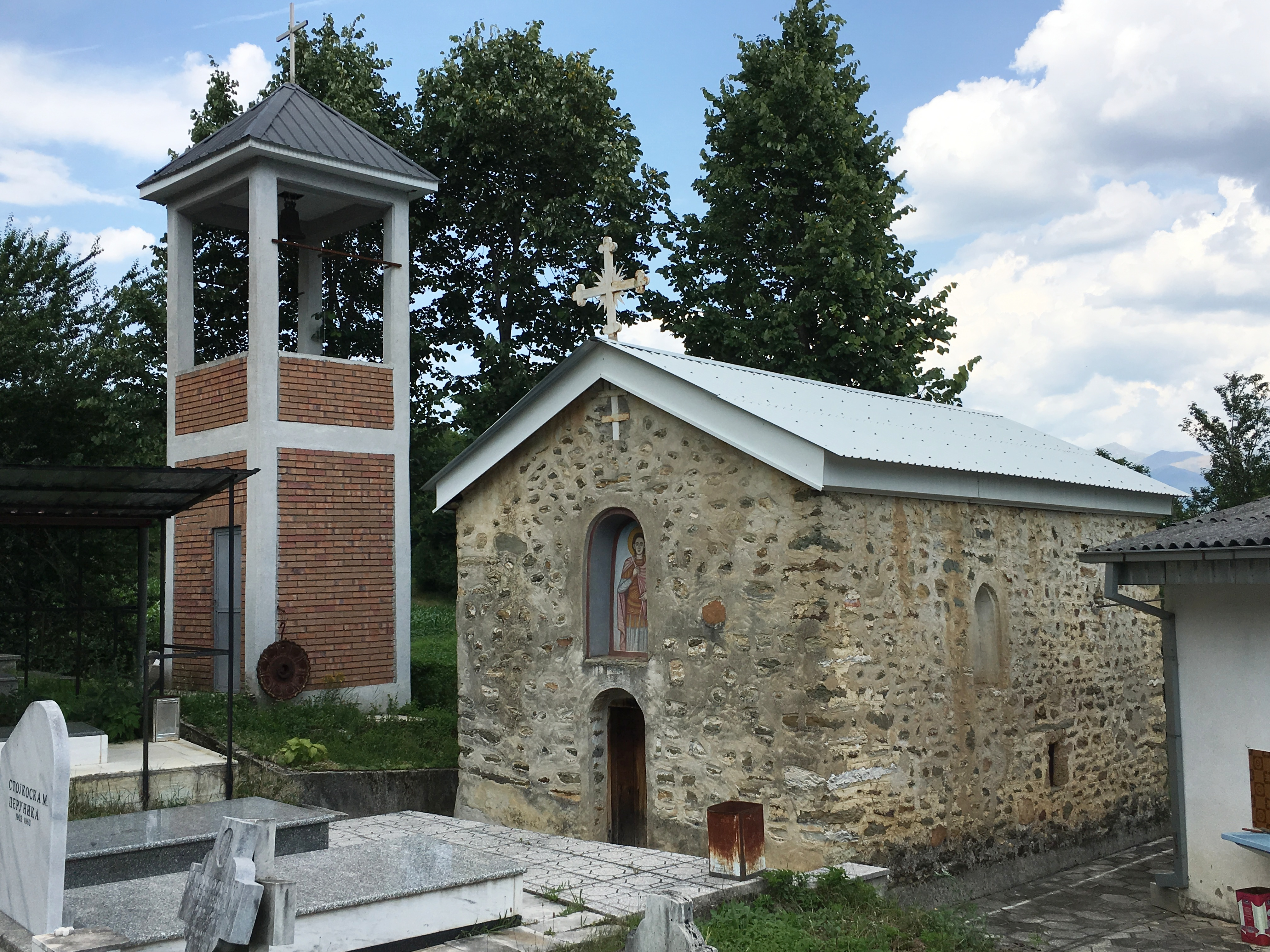 St. Demetrius Church in the village of Trebino